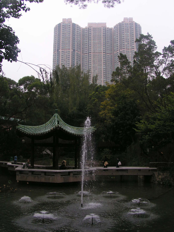 Kowloon Park (Hampton Place seen in the back)